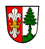 Coat of Arms of Schneeberg